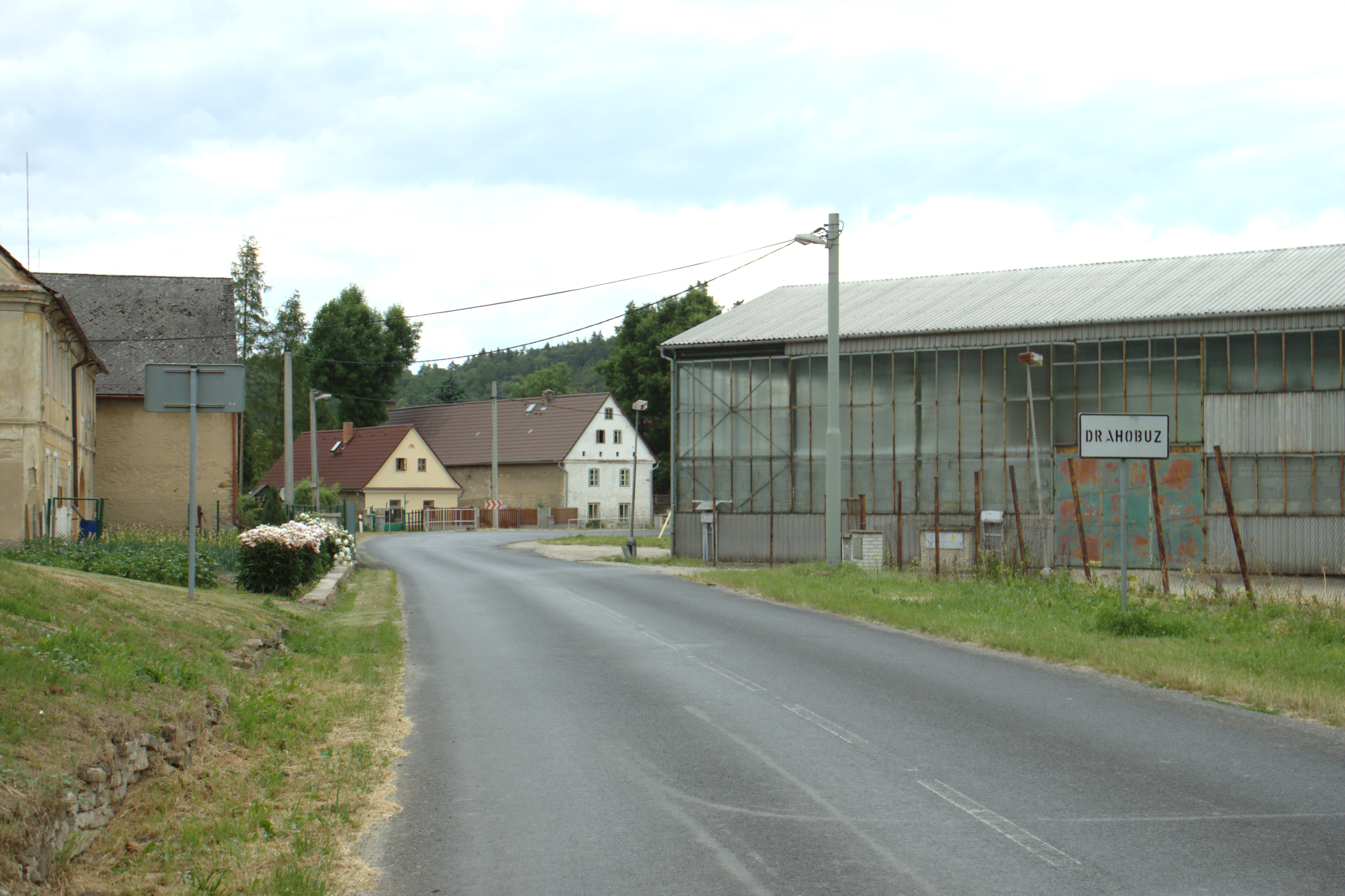 An industrial facility in the village of Drahobuz, Ústí Region, CZ